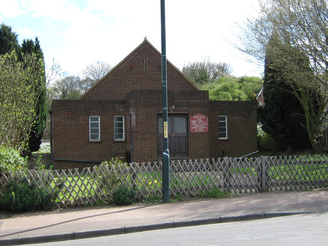 Sacred Heart Catholic Church On Street End Road, opposite Third Avenue.